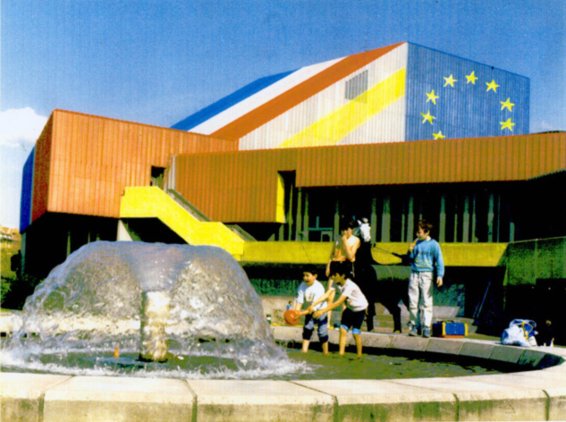 Coloration of the Karlsruhe theater (Germany) for meetings of european culture in 1989 by Bernard Romain.